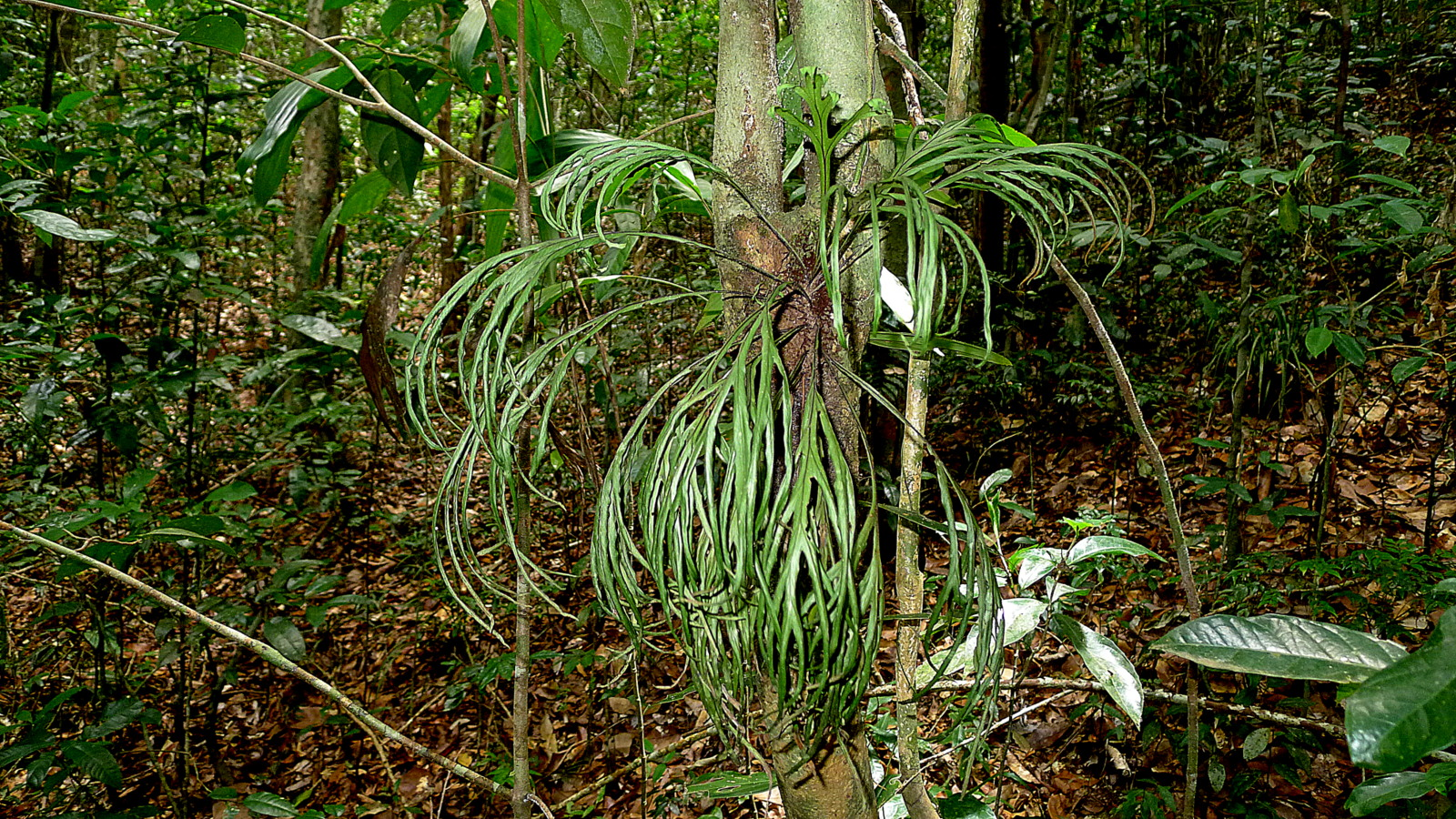 Dicranoglossum furcatum J.Sm., Polypodiaceae, Atlantic forest, northeastern Bahia, Brazil Popovkin & Mendes 1286 (HUEFS).